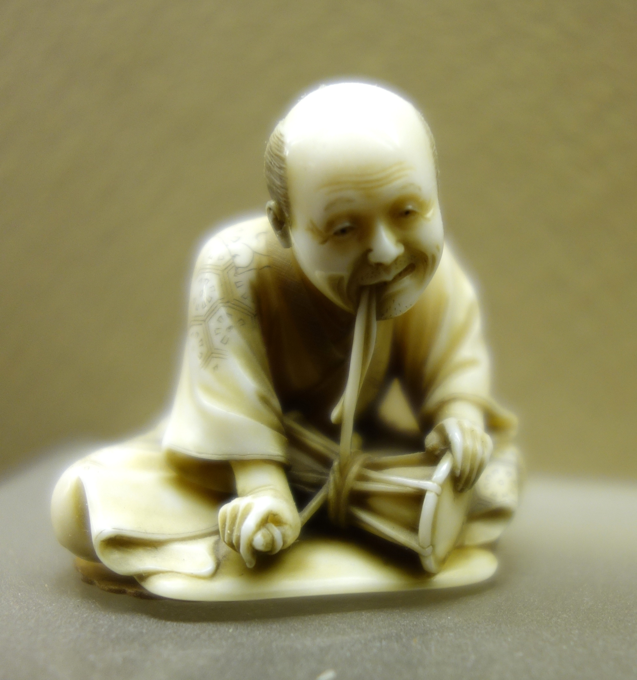 Exhibit in the Fairbanks Museum and Planetarium, St. Johnsbury, Vermont, USA. This artwork is old enough so that it is in the public domain.